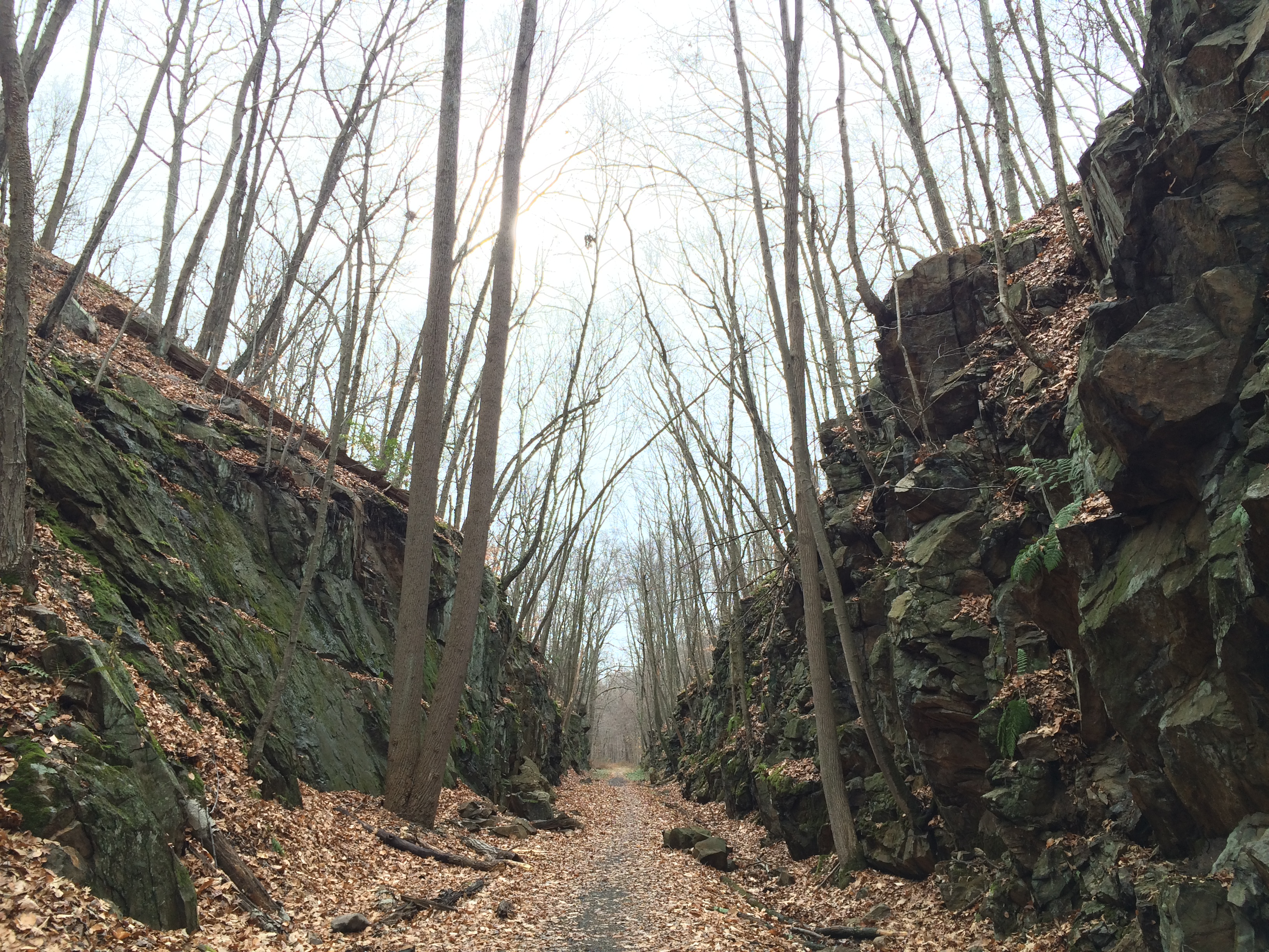 The Larkin State Park Trail in Middlebury Connecticut headed west on November 22, 2015.